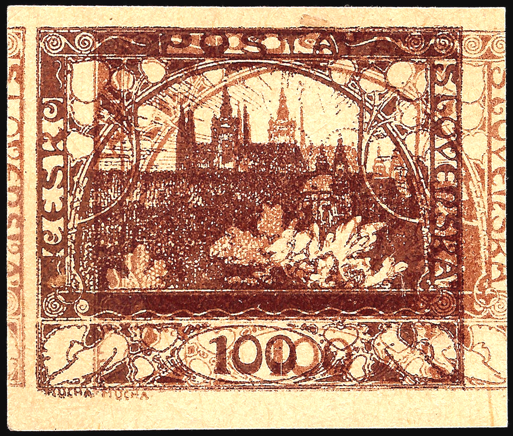 First postage stamp of Czechoslovakia, Hradčany of Prague, 100 haléřů, dec. 1918, double printing with shift error